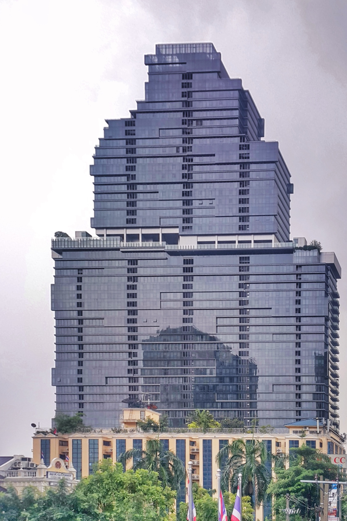 Condominium by the name of "The Bangkok" (เดอะ แบงค็อก) is one of the tallest accommodations in Bangkok